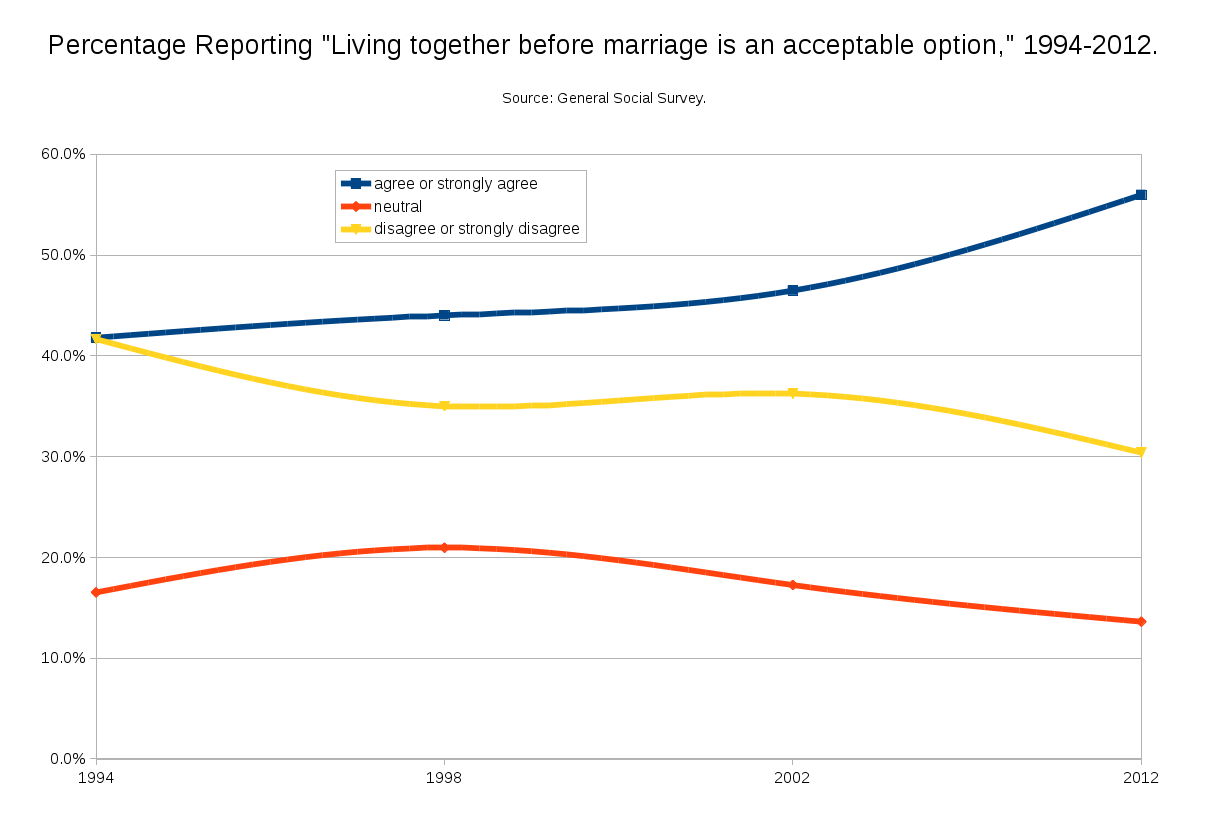 This figure shows changes in attitudes toward cohabitation in the US.